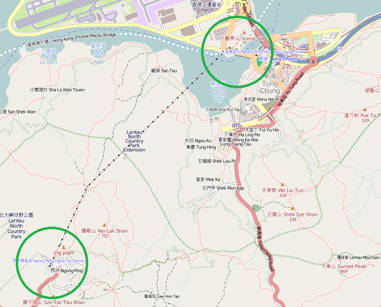 Map of Tung Chung and Ngong Ping, Lantau Island, Hongkong. Map of the Ngong Ping 360 system. The terminals are pointed with the green cirkels. Source: [1]